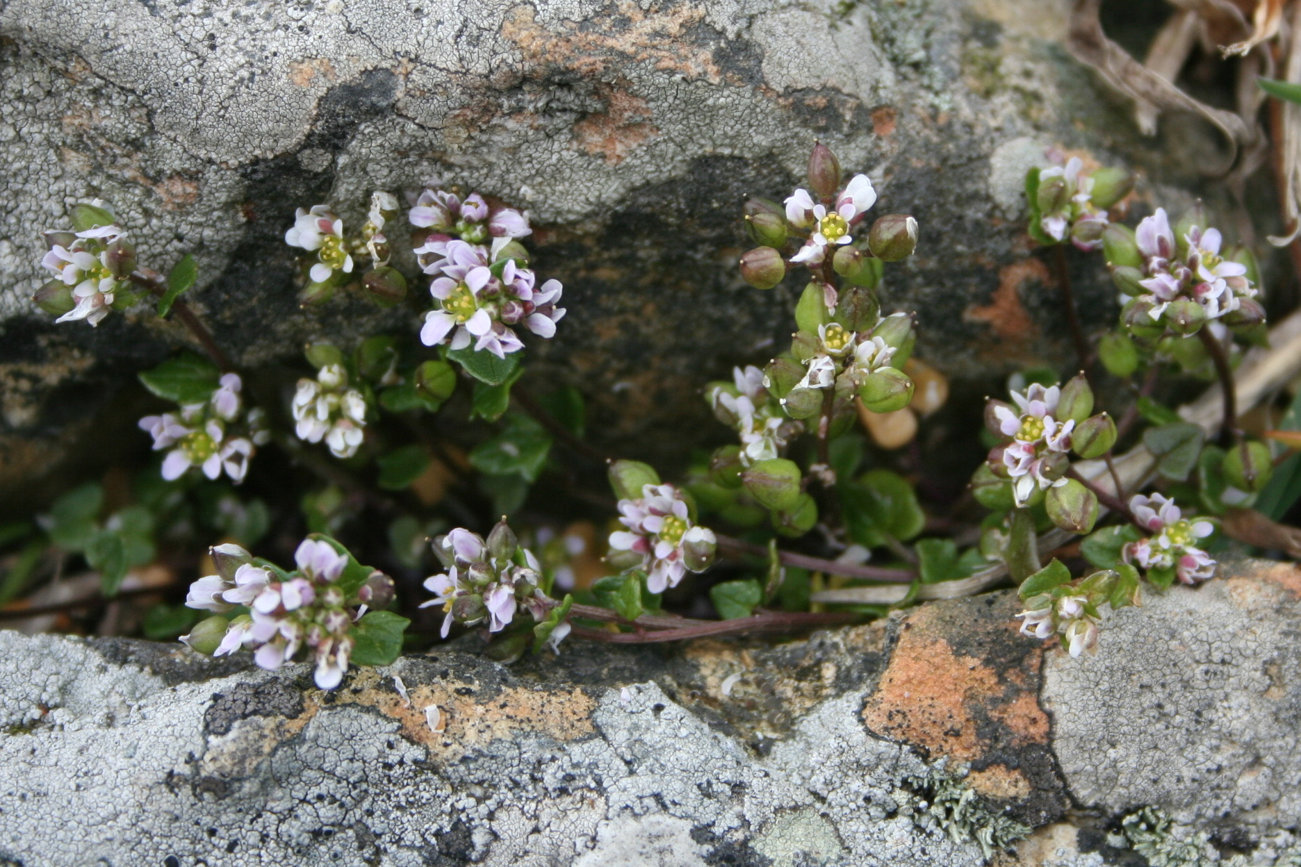 Cochlearia danica (Danish Scurvy-grass) on cliffs near Crozon, France.